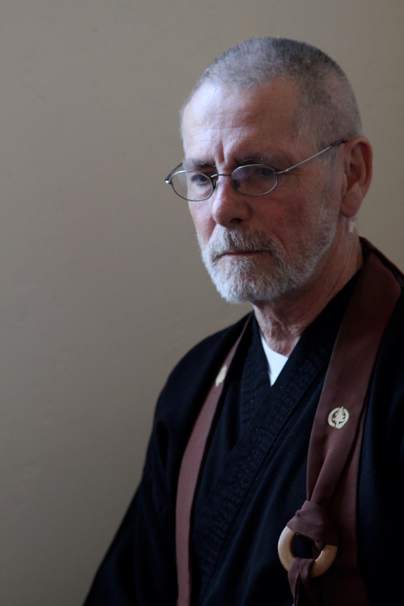 Harvey Daiho Hilbert - roshi. A zen teacher in his robes.